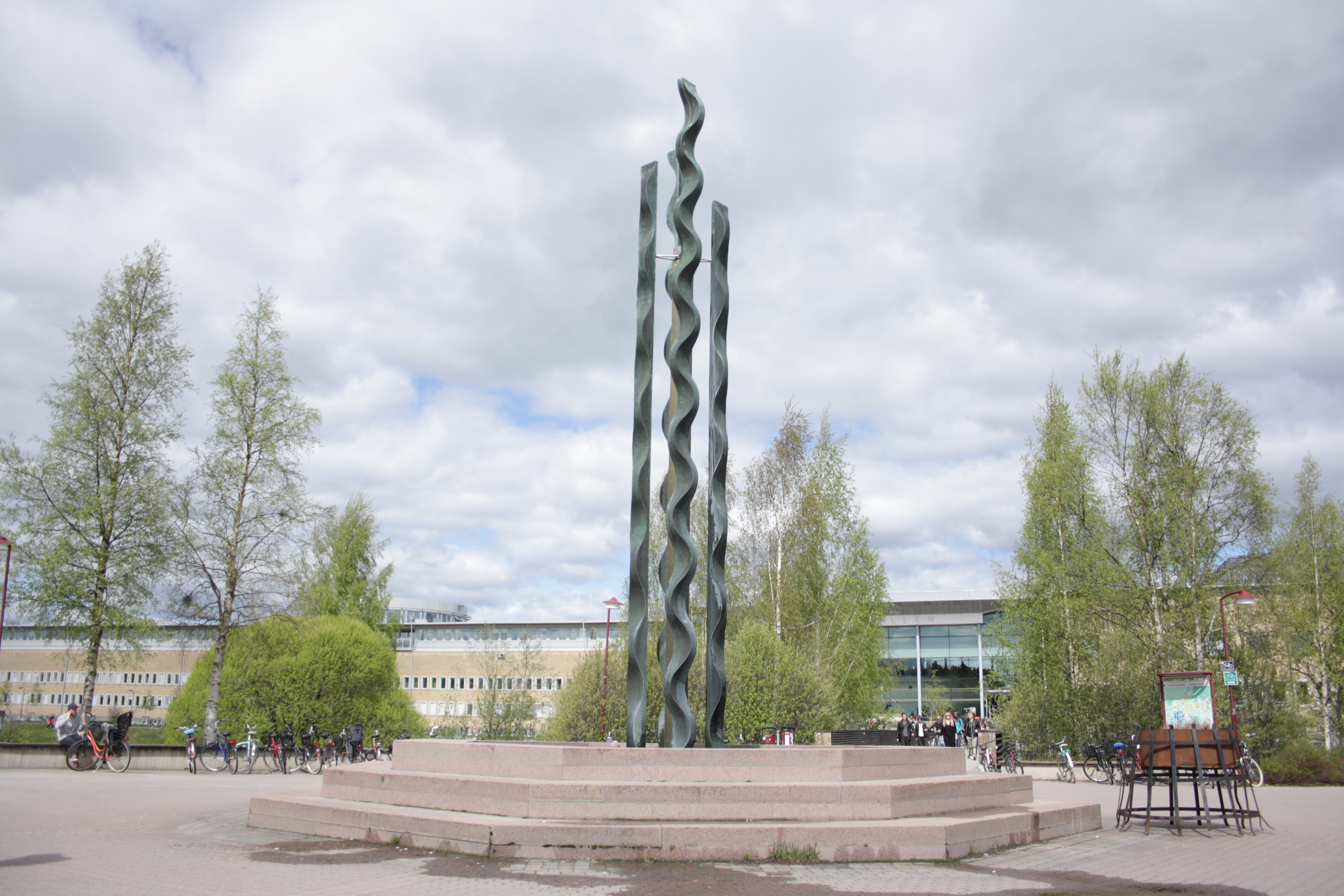 "Vågspel" by Mats Olofgörs, Umeå University campus